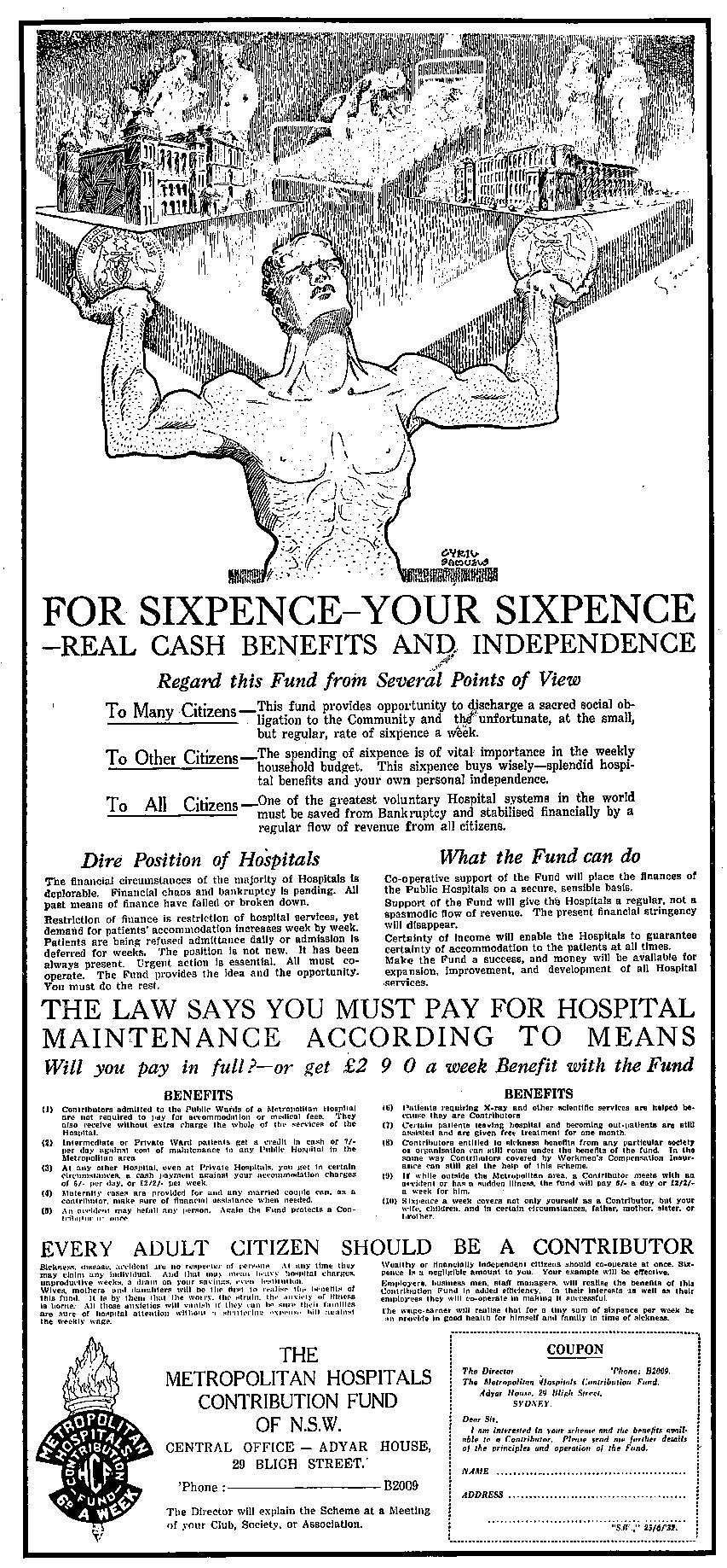 HCF's first-ever advertisement on June 25 1932